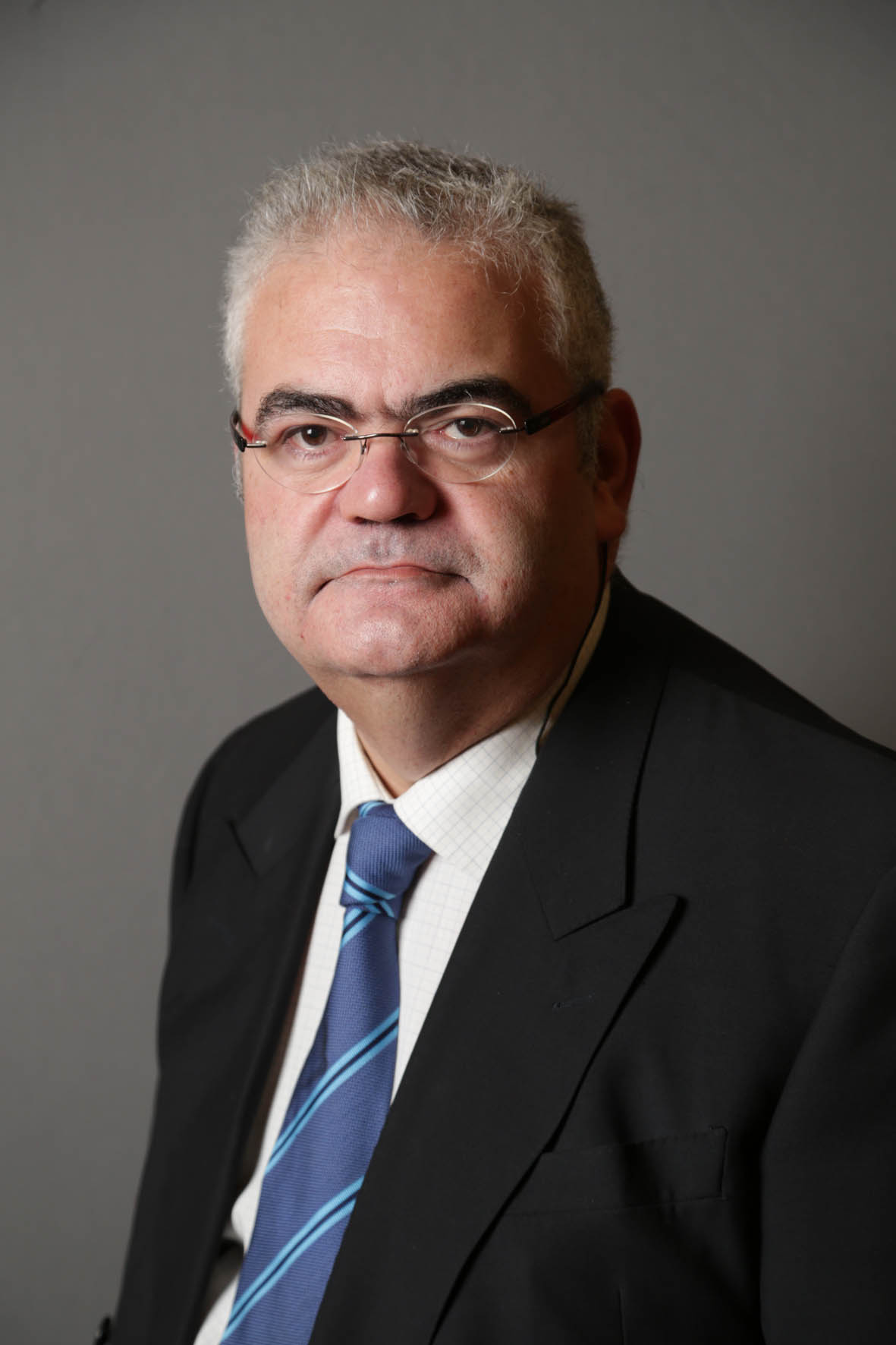 Candidats Eleccions Generals 2015 Feliu Guillaumes